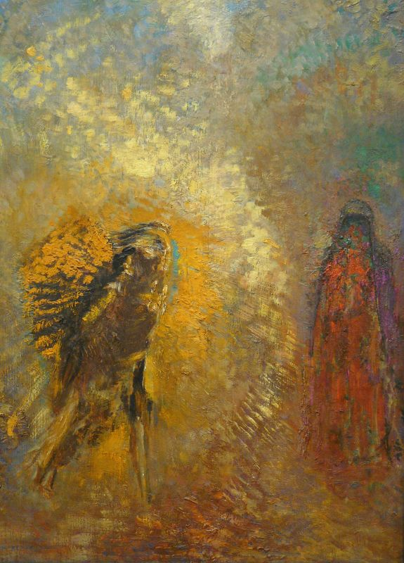 Odilon Redon. Apparition. c. 1905. Oil on wood panel with wood cradle at top and bottom, 26 3/8 x 15 3/4" (67 x 40 cm). Gift of The Ian Woodner Family Collection Wikipedia Loves Art at the Museum of Modern Art This photo of item # 219.2000 at the Museum of Modern Art was contributed under the team name "trish" as part of the Wikipedia Loves Art project in February 2009. Museum of Modern Art The original photograph on Flickr was taken by Trish Mayo—please add a comment to the original Flickr page whenever a use has been made on Wikipedia or another project. Project galleries on Flickr: this institution, this team Odilon Redon. Apparition. c. 1905. Oil on wood panel with wood cradle at top and bottom, 26 3/8 x 15 3/4" (67 x 40 cm). Gift of The Ian Woodner Family Collection Wikipedia Loves Art at the Museum of Modern Art This photo of item # 219.2000 at the Museum of Modern Art was contributed under the team name "trish" as part of the Wikipedia Loves Art project in February 2009. Museum of Modern Art The original photograph on Flickr was taken by Trish Mayo—please add a comment to the original Flickr page whenever a use has been made on Wikipedia or another project. Project galleries on Flickr: this institution, this team